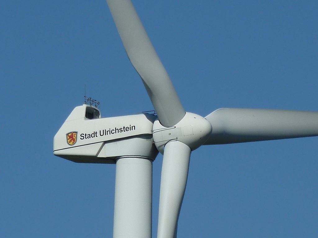 Municipal wind turbine (Type: NEG Micon NM 60/1000) of the Stadtwerke Ulrichstein in the "Alte Hoehe" wind farm in Hesse, Germany.